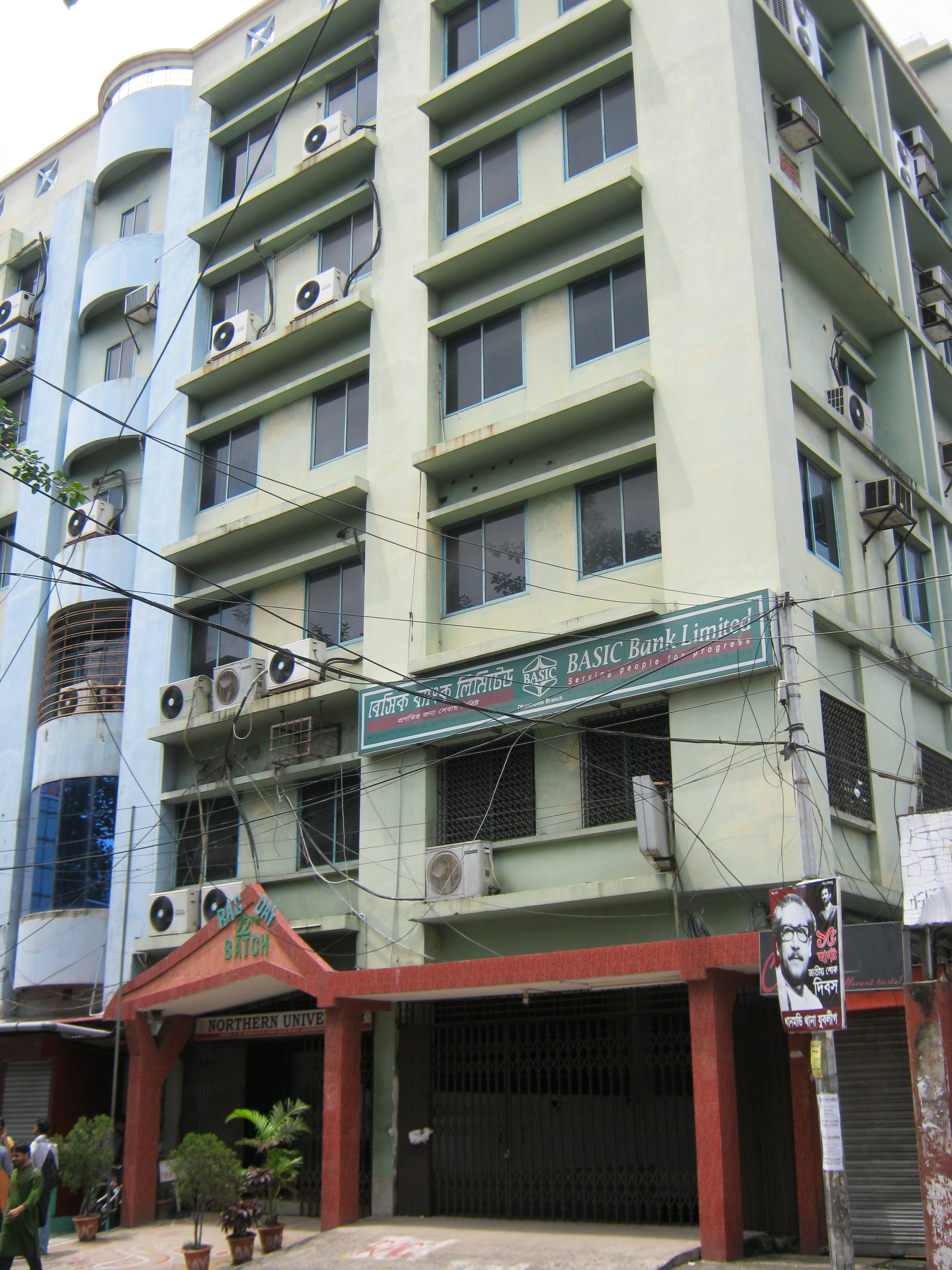 Northern University Bangladesh